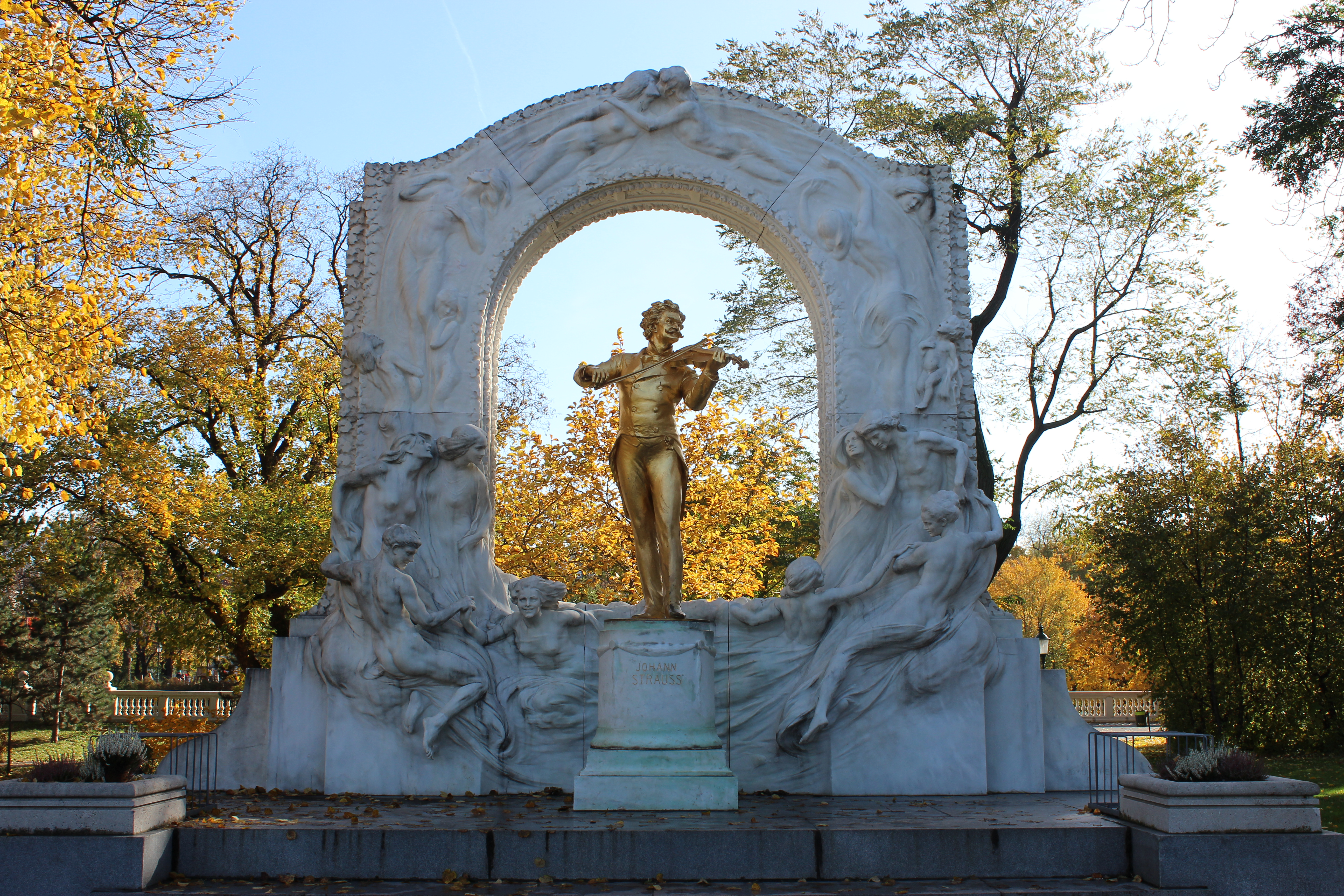 Strauss Monument, Stadtpark, Vienna, Austria